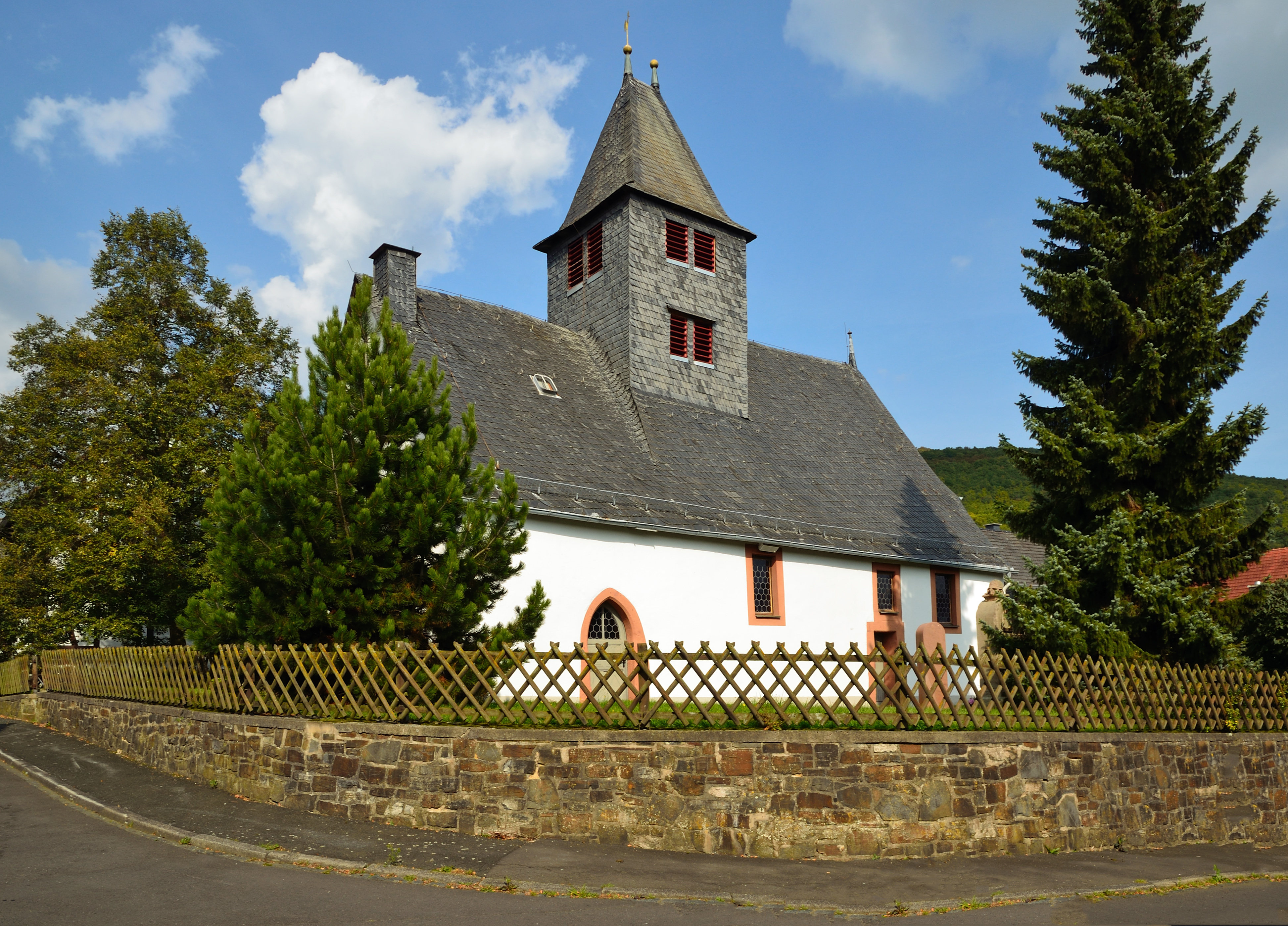 Church in Rodenhausen, Lohra